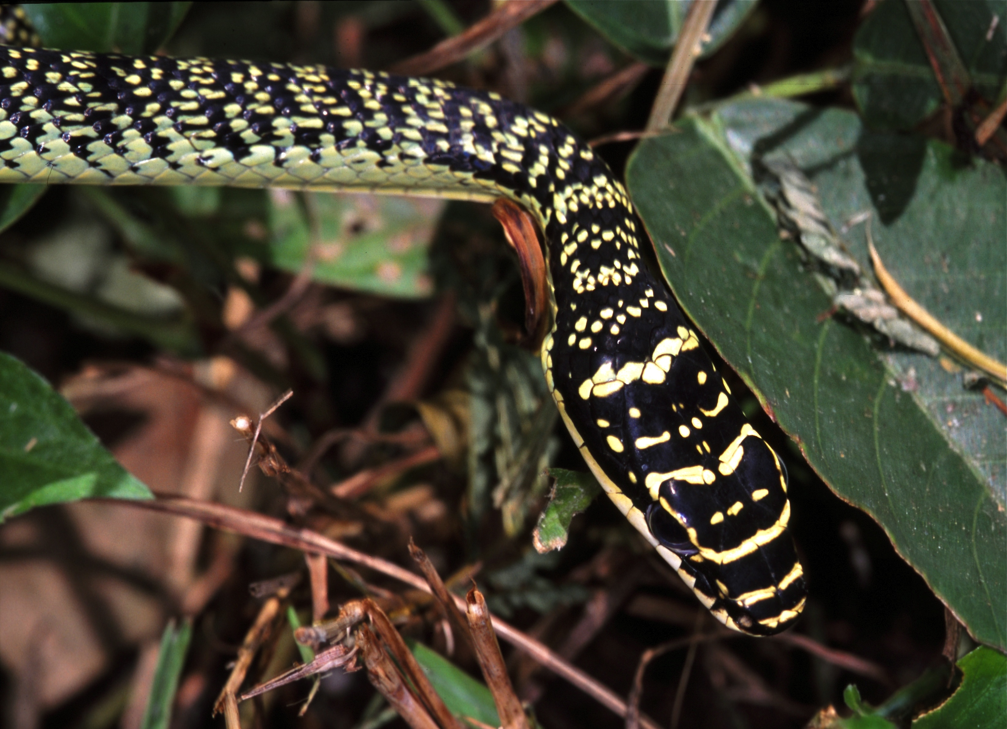 Nam Nao NP, THAILAND Scanned Slide from 2003